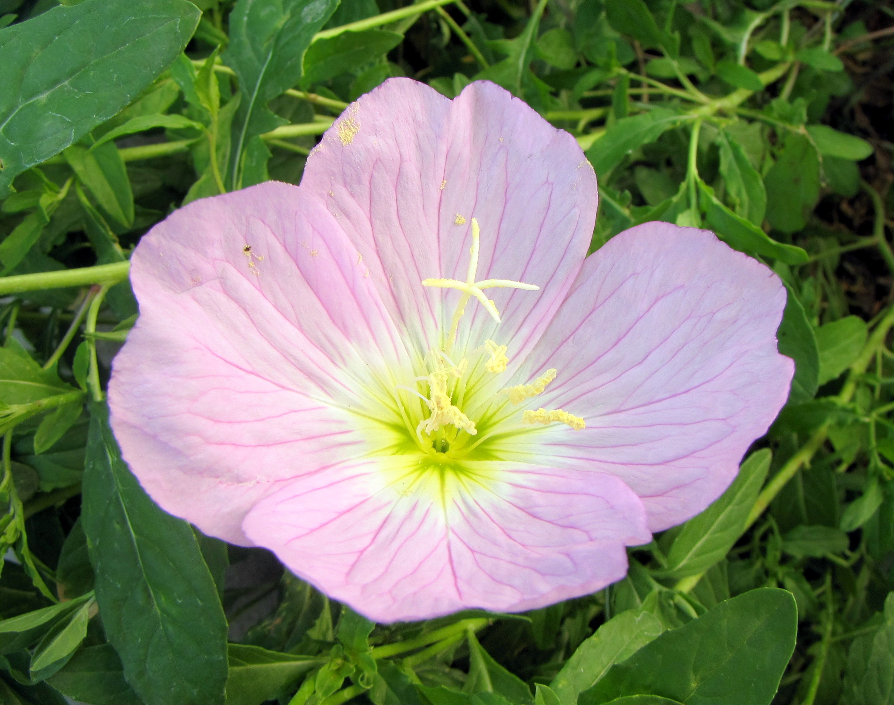 A newly bloomed primrose. These flowers are pink and turn white as they age.